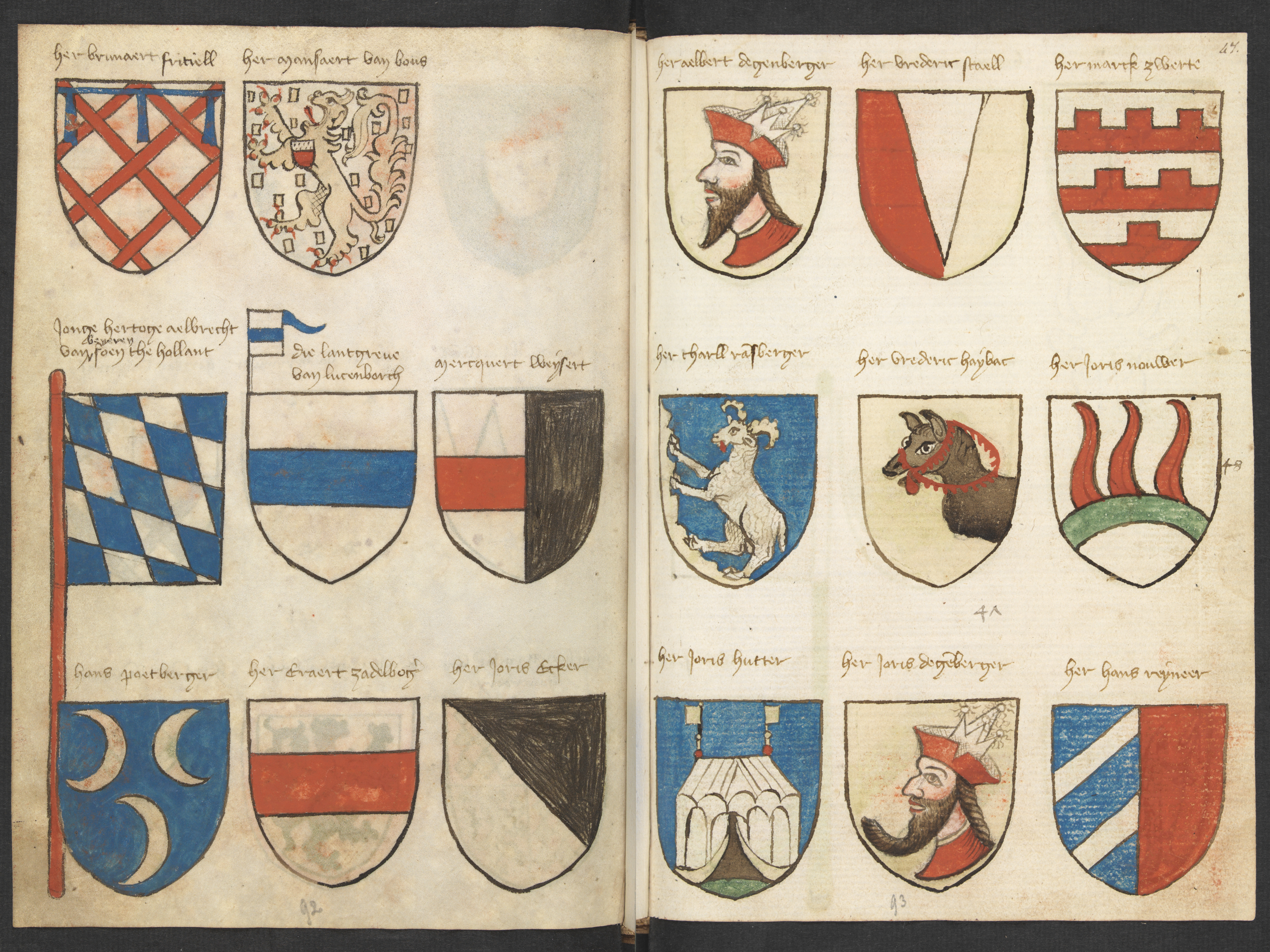 Lefthand side folio 046v; righthand side folio 047r from the Beyeren armorial / Wapenboek Beyeren